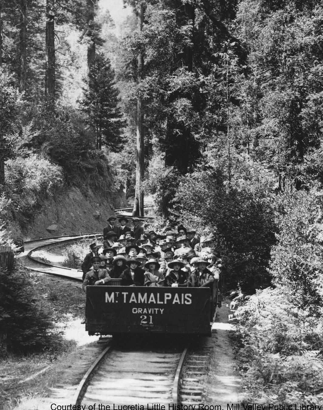 Gravity car no. 21 on the Mount Tamalpais and Muir Woods Railway c. 1915. Physical rights of this image are retained by the Mill Valley Public Library, Lucretia Little History Room, or are protected by copyright. Use of this image requires permission from the Mill Valley Public Library, Lucretia Little History Room.